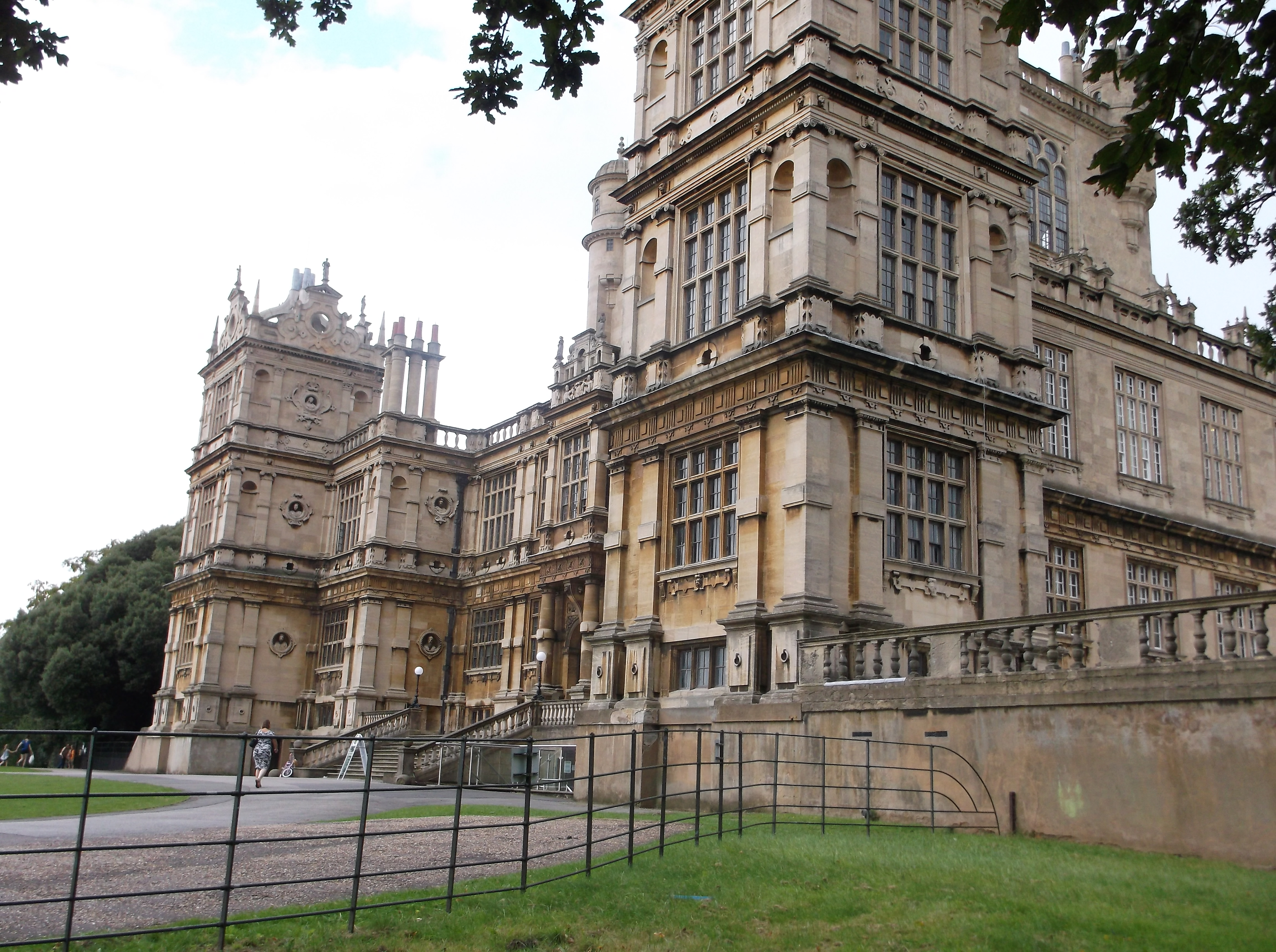 Side view of Wollaton Hall